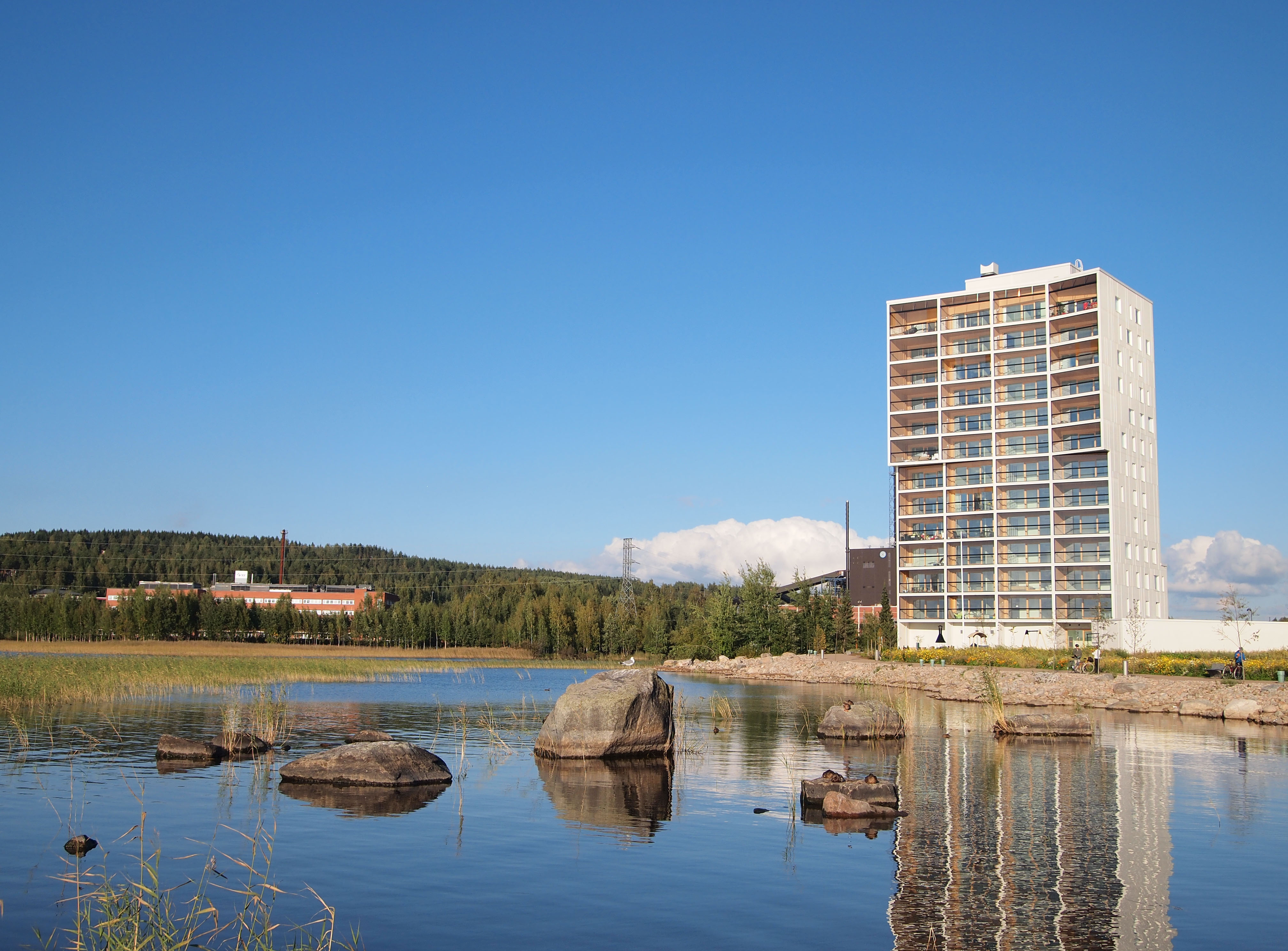 Maailmanpylväs and lake Jyväsjärvi, Jyväskylä.This photograph was taken with an Olympus E-PL1